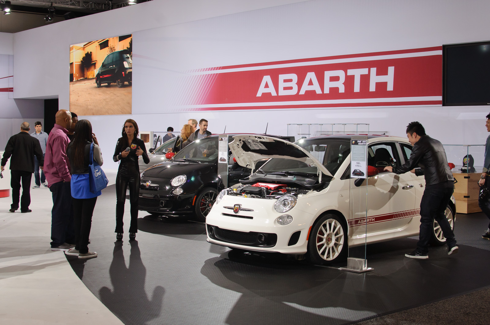 FIAT's acquisition of ailing Chrysler gave it a way back into the US market for the first time in a generation; soon afterwards, FIAT started selling Mexican-built 500s at Chrysler showrooms. Now, FIAT is adding to the US-market 500 lineup by introducing the high-performance Abarth version. The Abarth comes with a turbocharged 1.4L engine. Seen at Los Angeles International Auto Show, 2011.